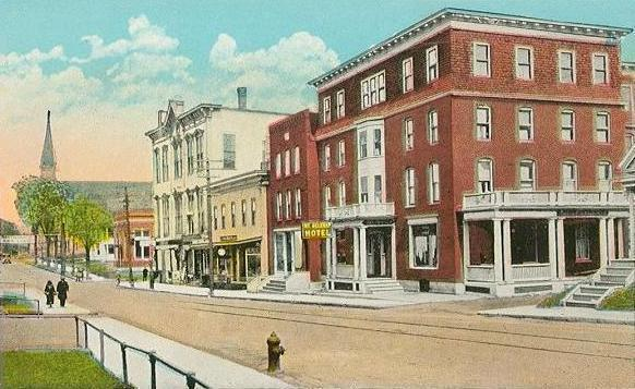 Webster Square, Lakeport, NH; from a c. 1915 postcard.